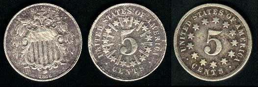 Shield nickel